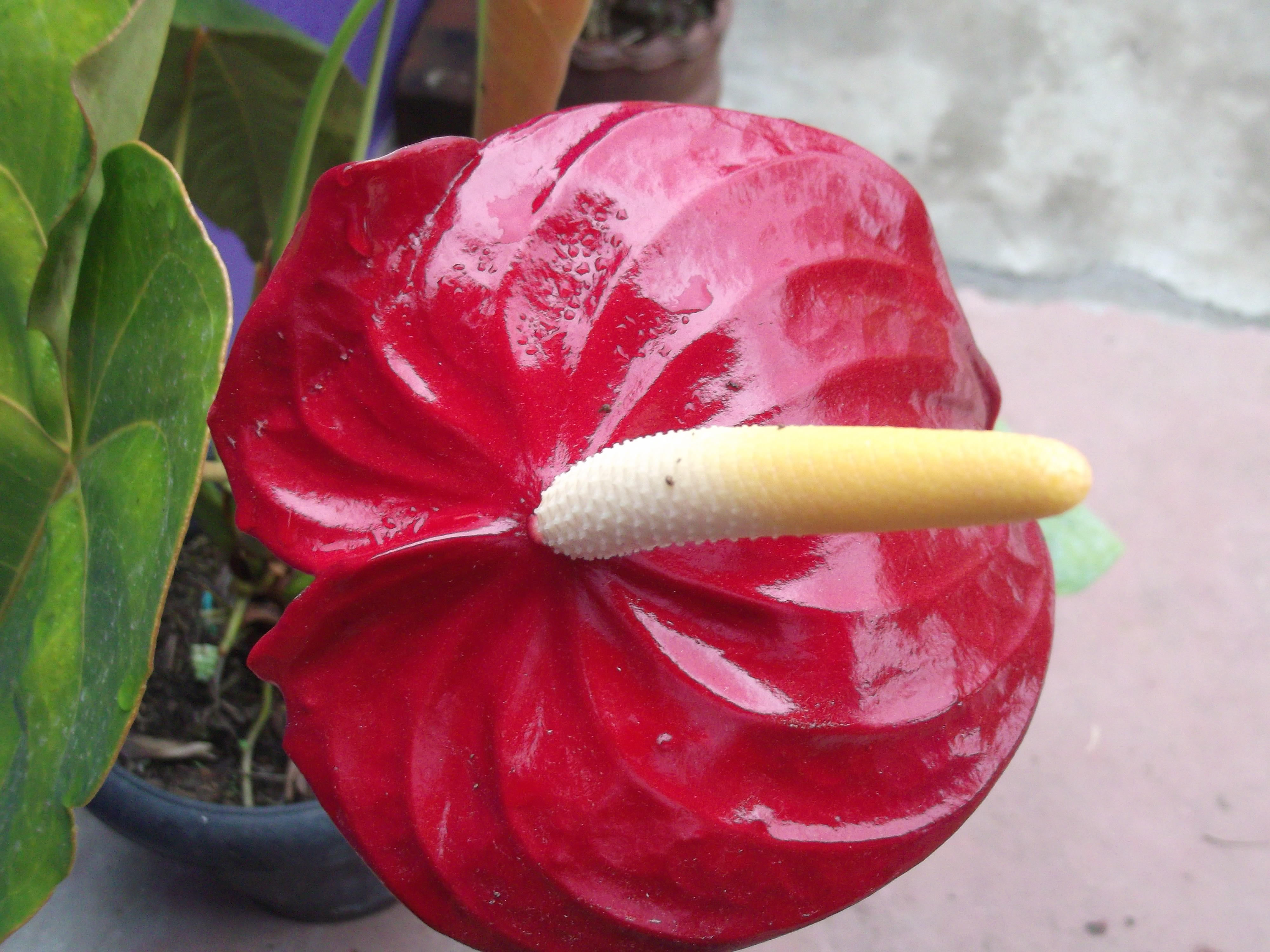 Erect plant,spath cordate,waxy,red,spadix white,yellow at tip.